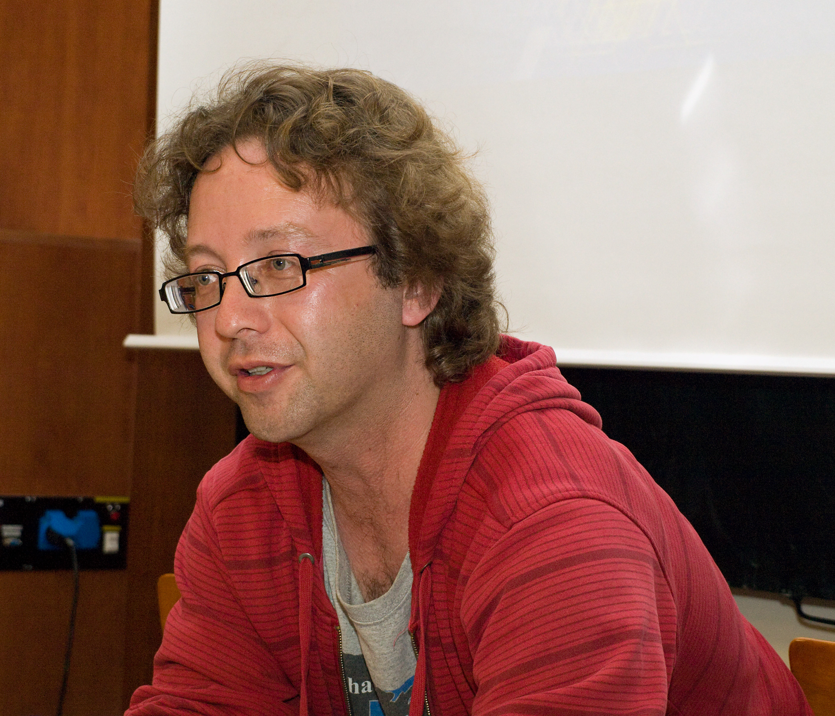 The Night of Philosophy in Prague: Czech philosopher Josef Fulka